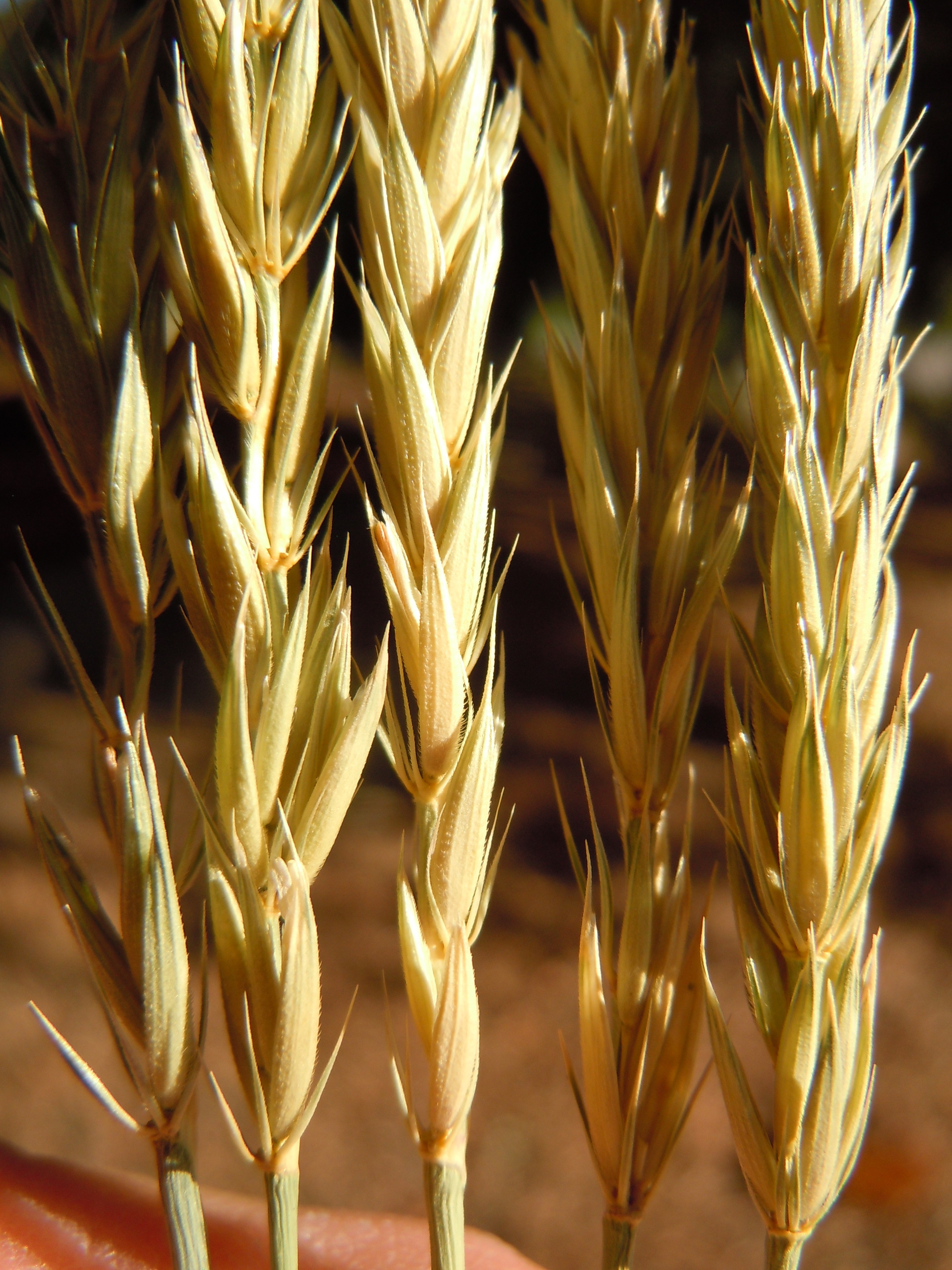 Psathyrostachys juncea syn Elymus junceus in Park Co., Wyoming, USA